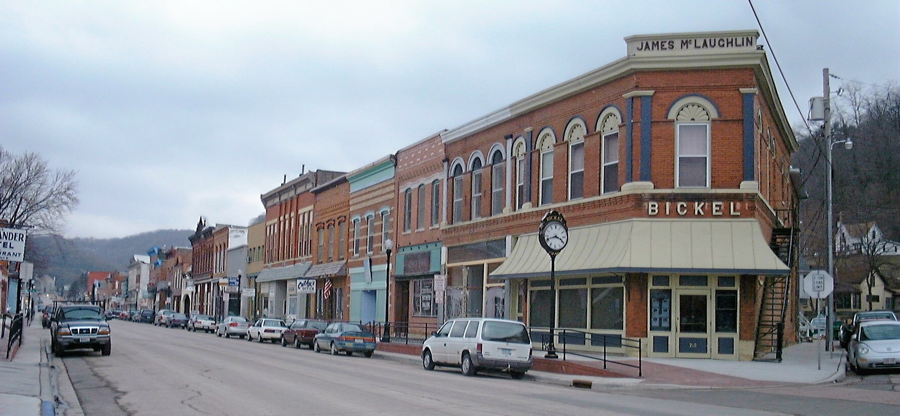 Downtown McGregor, Iowa. The picture looks southward along Main St. from the A St. intersection. This intersection is located at the center of the McGregor Commercial Historic District, which is listed on the National Register of Historic Places.